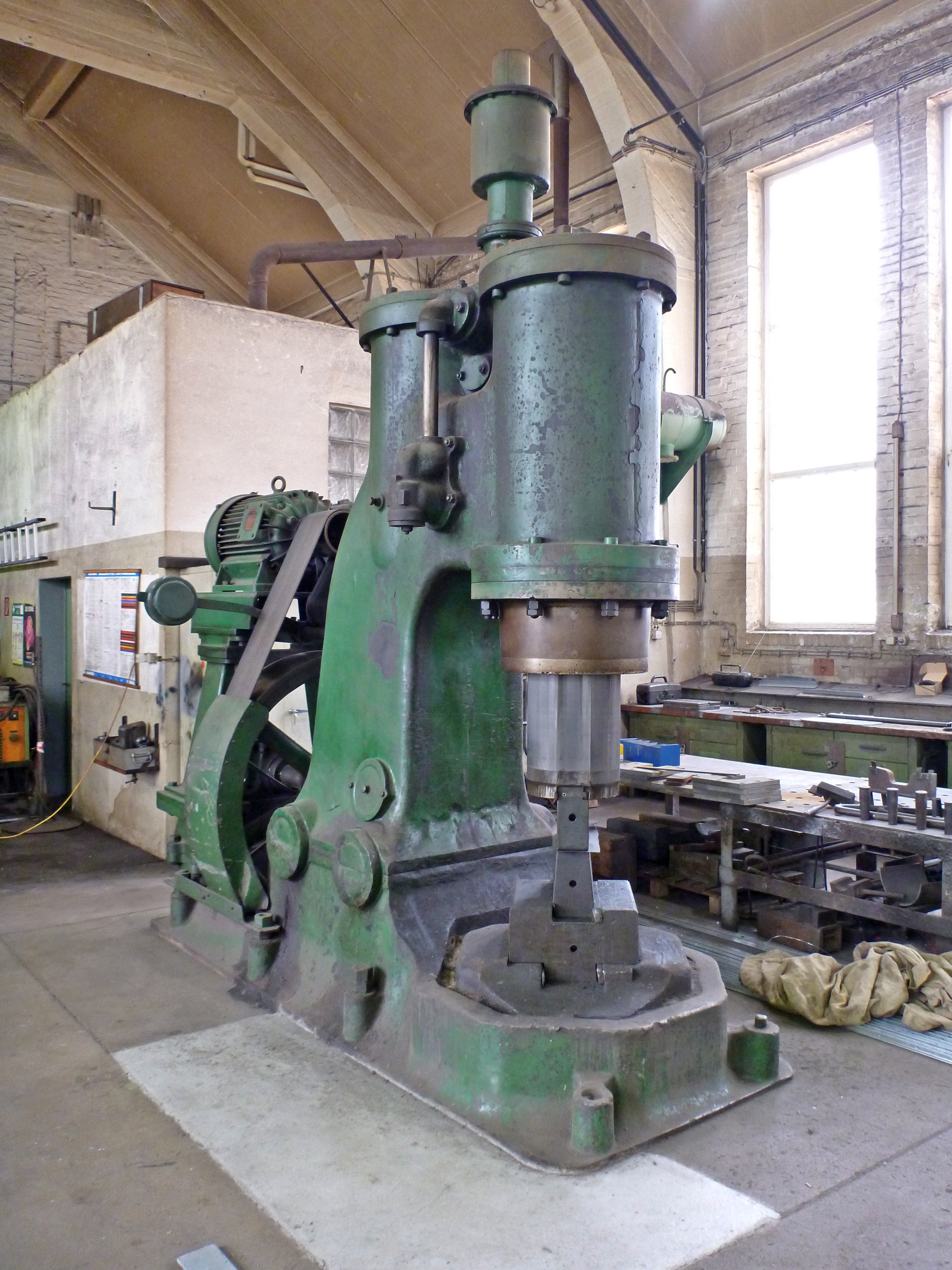 Steam hammer at the shipyard in Rendsburg